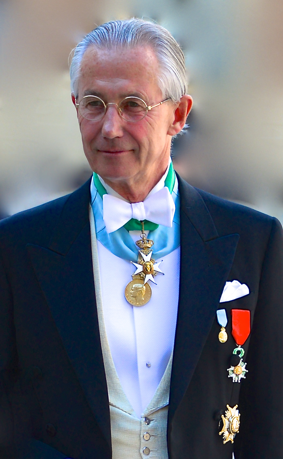 Tord Magnuson (Consul) on the way to the castle church at the Royal Palace in Stockholm before the wedding between Princess Madeleine and Christopher O'Neill 8 June 2013.